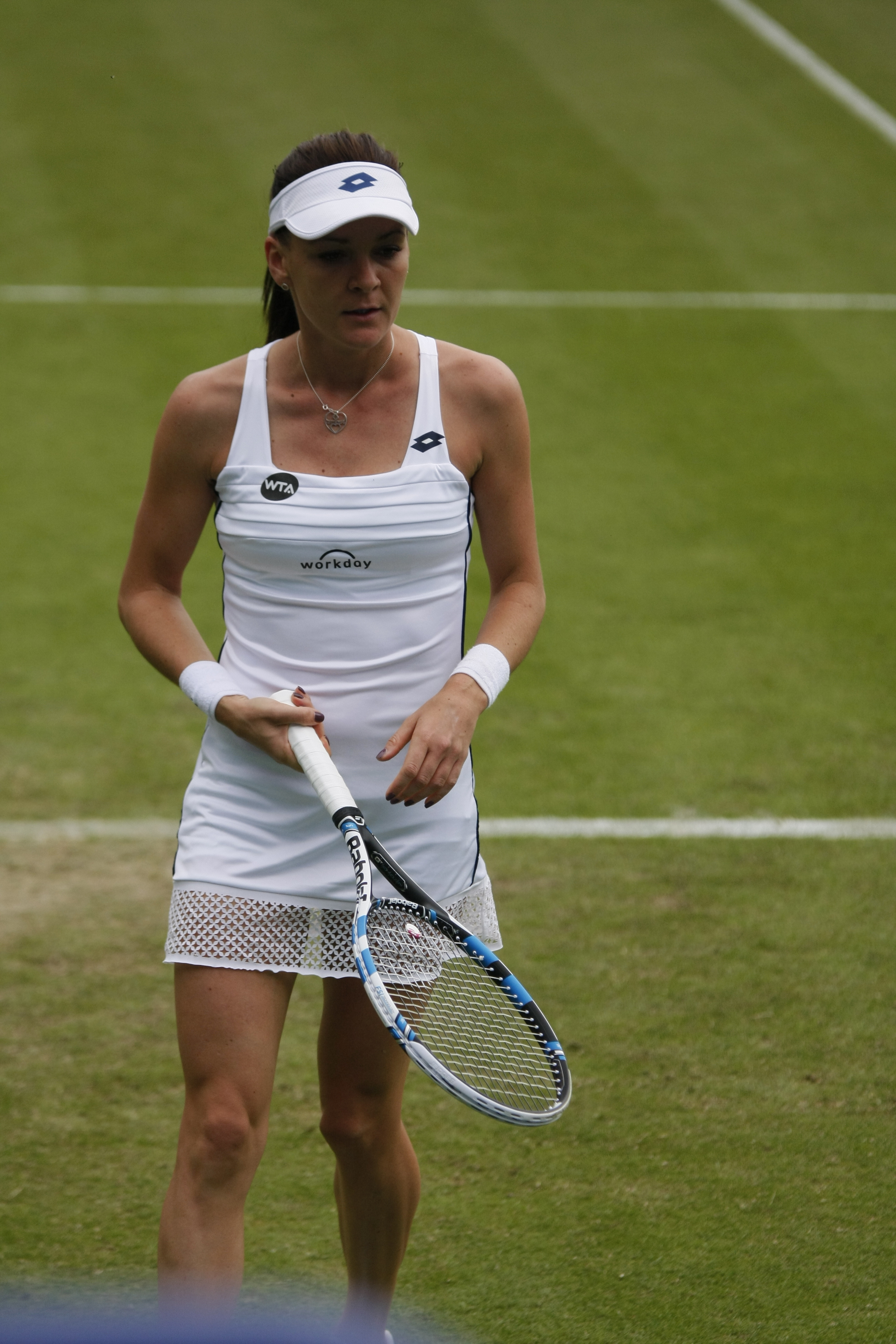 Aegon International Tennis, Devonshire Park, Eastbourne June 2015